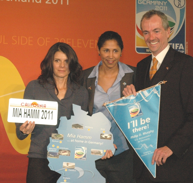 Former soccer players Mia Hamm and Steffi Jones pose with U.S. ambassador to Germany Phil Murphy in a kickoff event in Augusburg for the 2011 FIFA Women's World Cup.